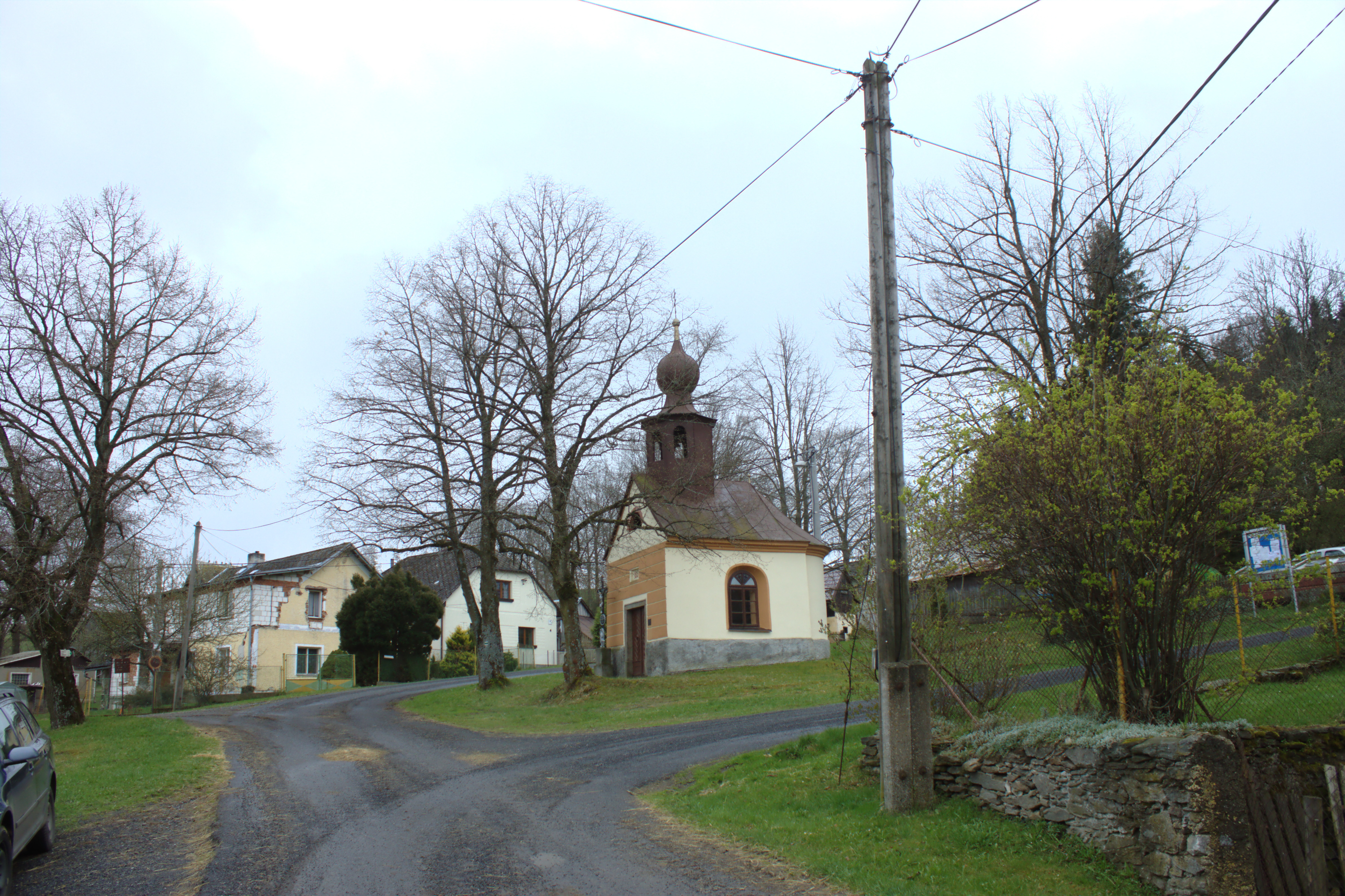 A chapel in the village of Chvalšovice, Plzeň Region, CZ